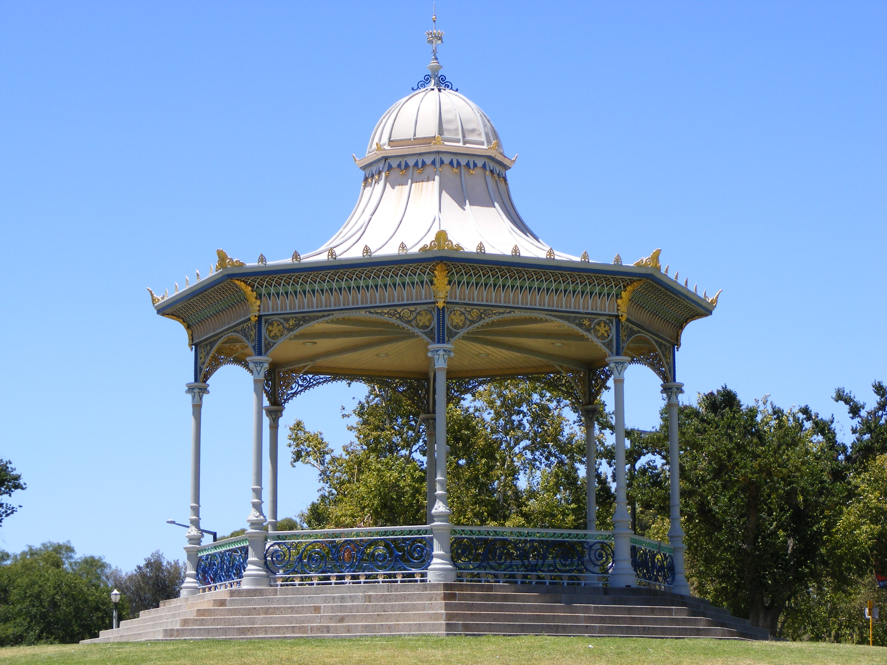 The iron rotunda at Edler Park on the banks of the Torrens, Adelaide, South Australia